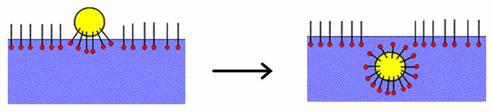 micelle encapsulating process of hydrocarbons in water